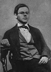 A youth portrait of Peter Rosegger (1843–1918), Austrian writer and poet.